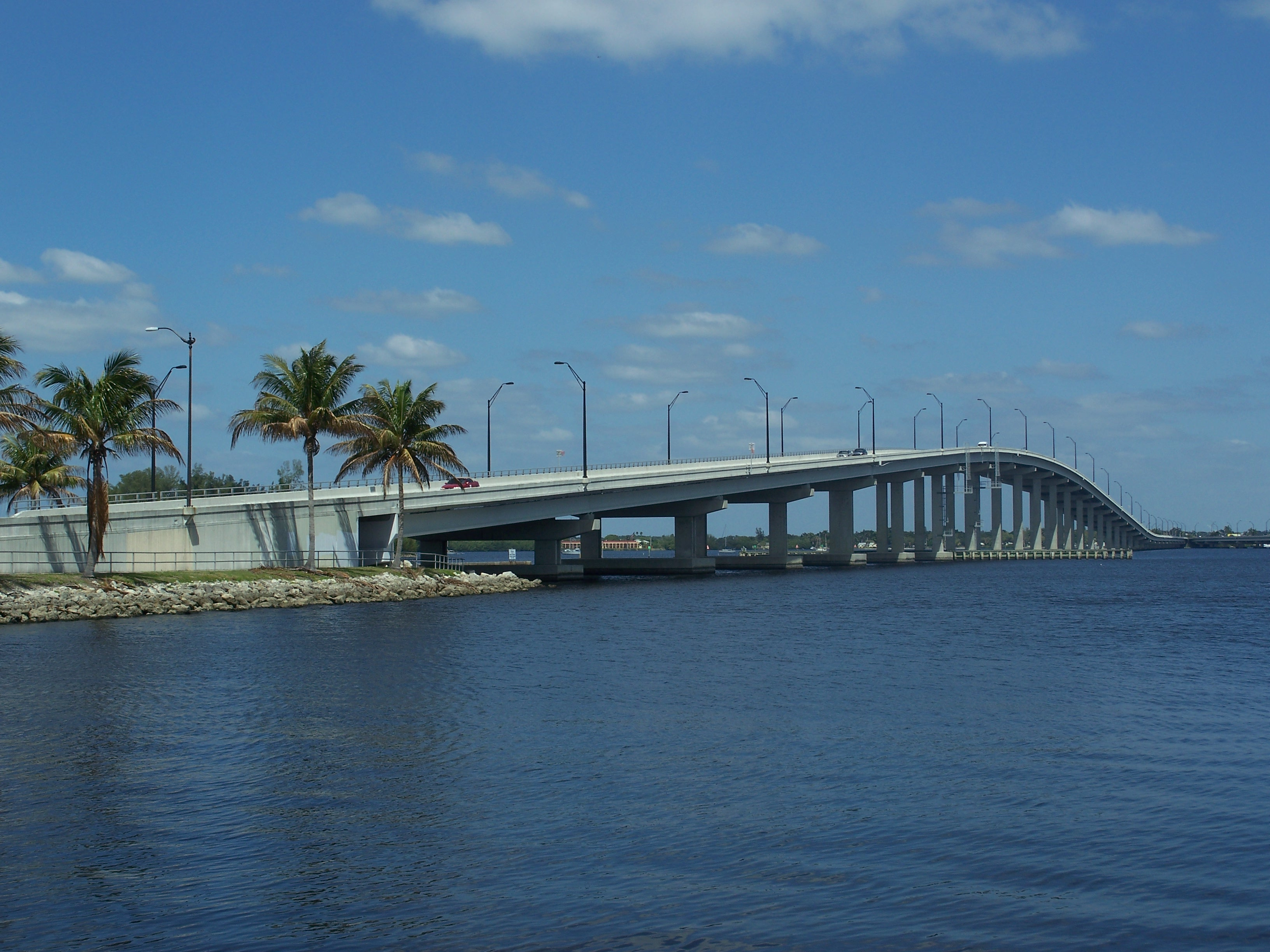 Fort Myers, Florida: Tamiami Trail, carried by the Edison Bridge over the Caloosahatchee River. This is the western part.